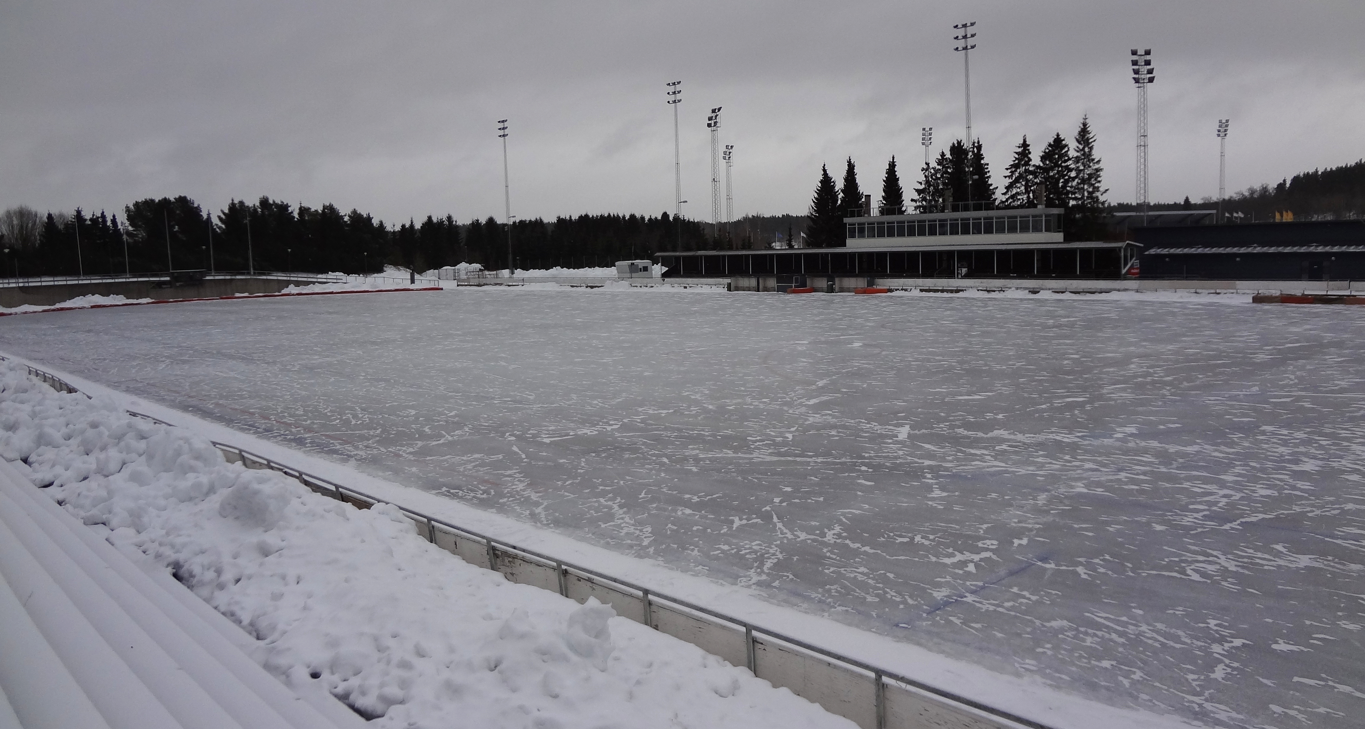 Ice arena in Eskilstuna, Sweden.